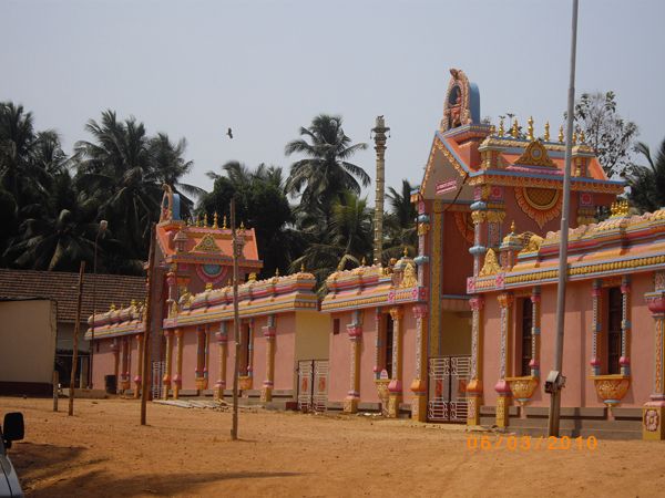 Kudroli Bhagavathi Kshethra